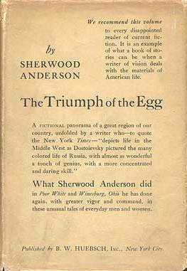 Front cover with dust jacket of Sherwood Anderson's short story collection The Triumph of an Egg.